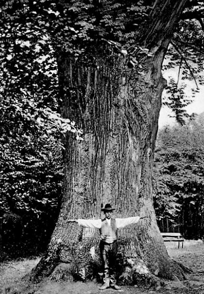 Die Kroneiche im Kellenhuserner Forst